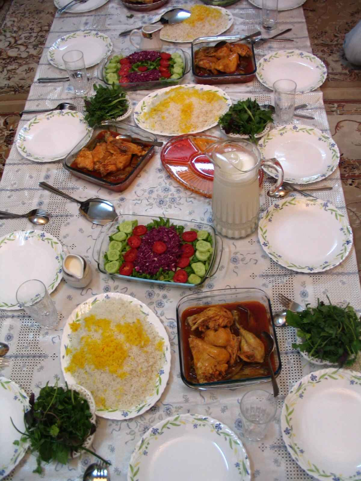 A typical Persian / Iranian cuisine often served not on a table.